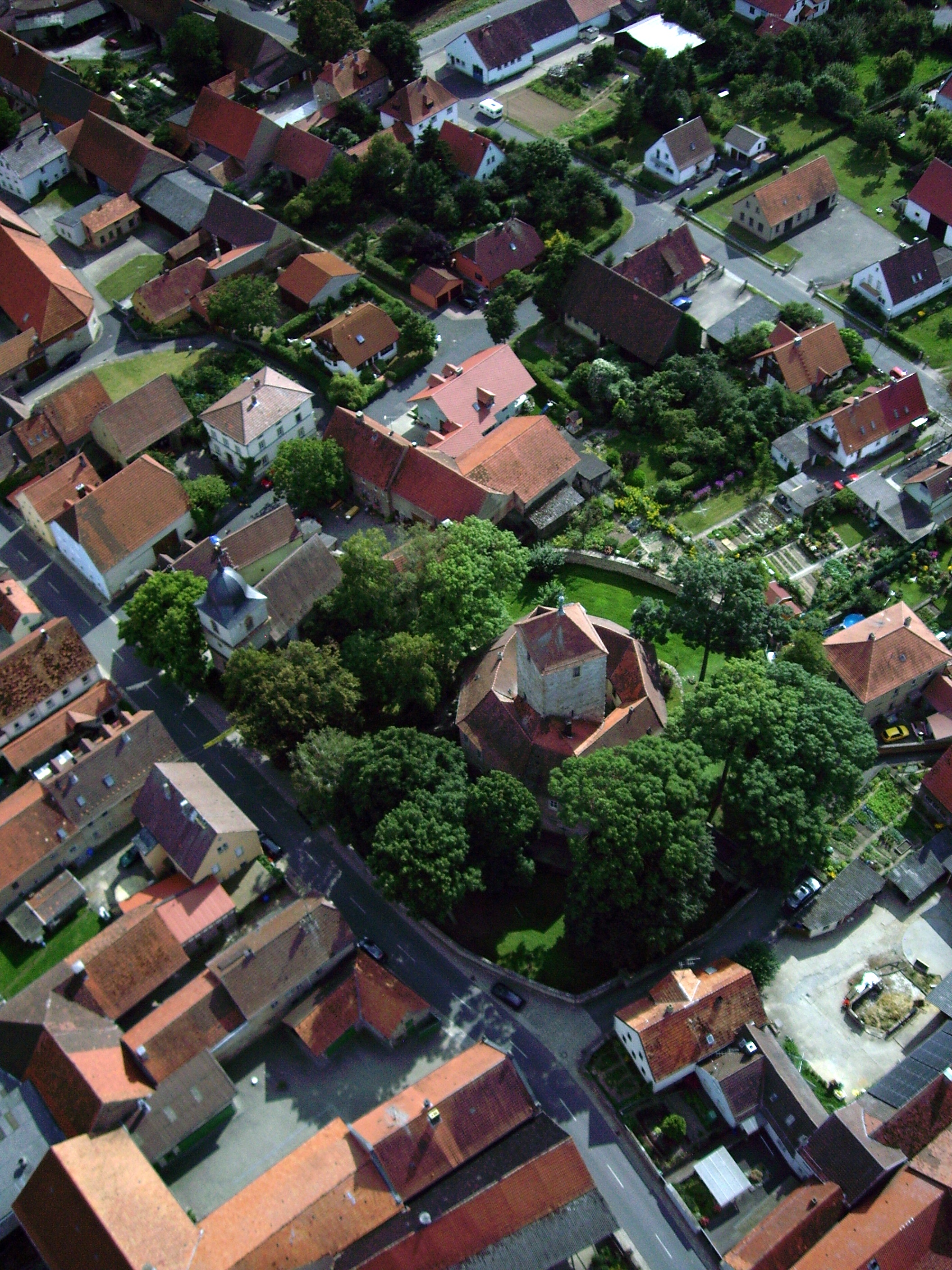 Kite Aerial Photography: Ochsenfurt-Erlach, Church